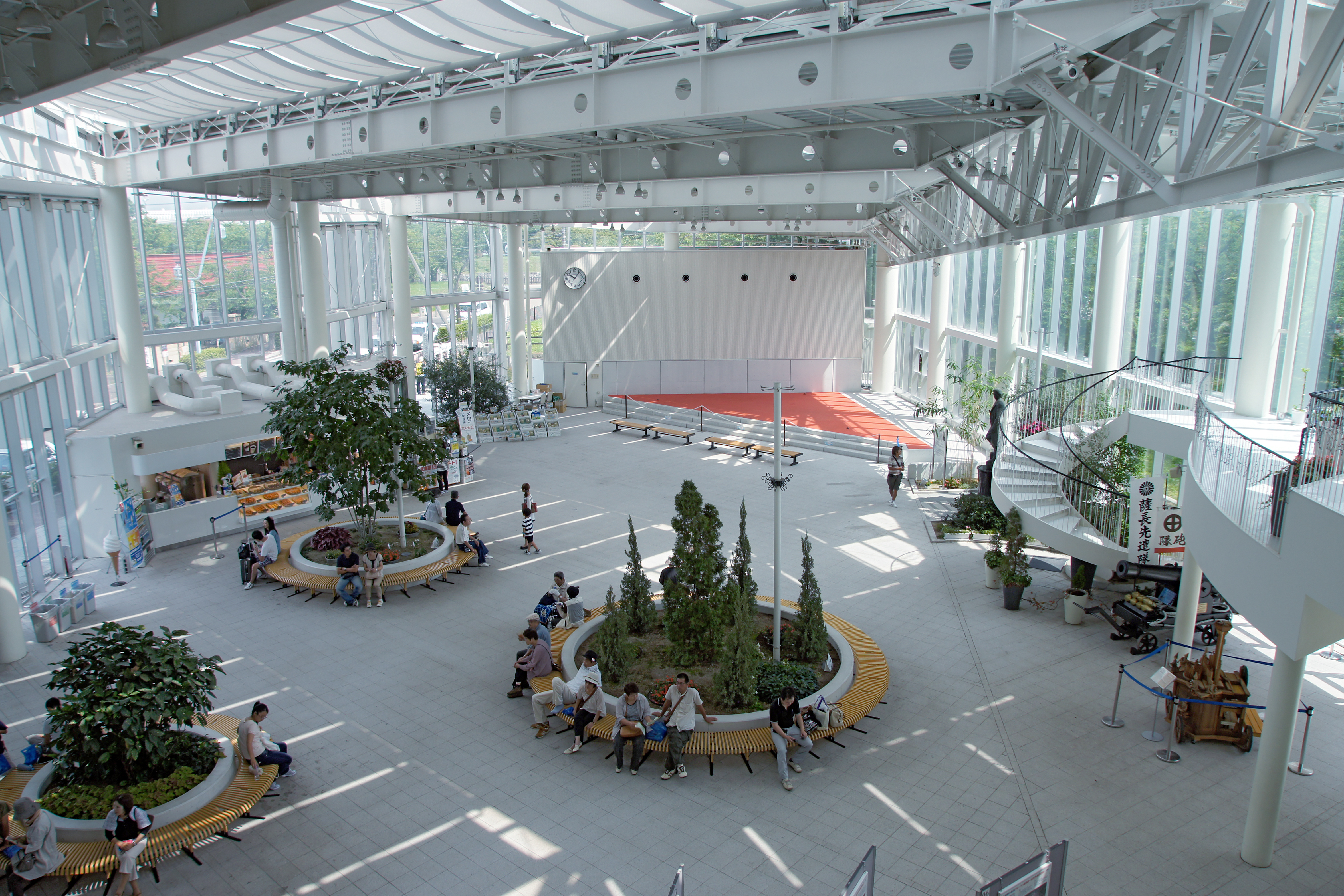 Goryōkaku Tower in Hakodate, Hokkaido prefecture, Japan